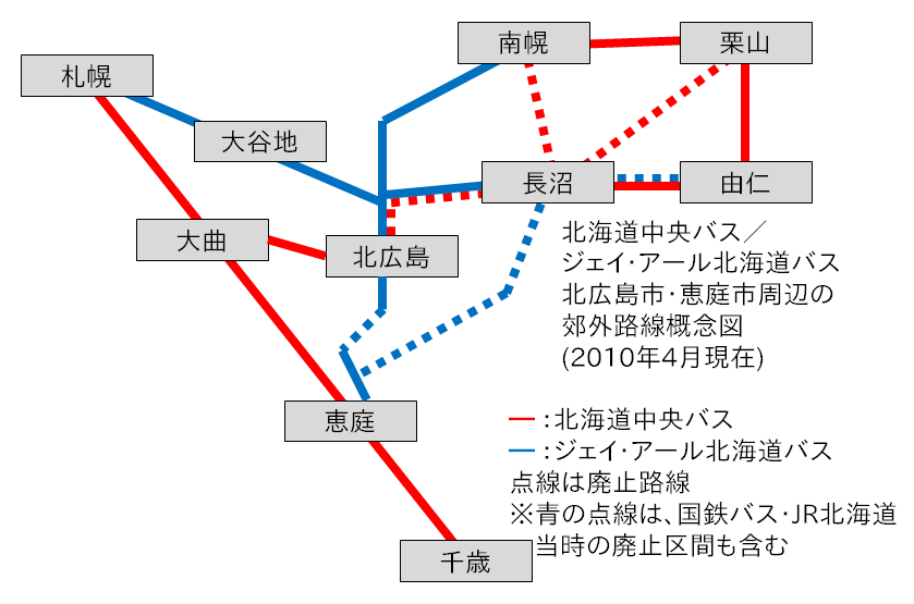 Outline of suburban bus routes of Hokkaido Chuo Bus and JR Hokkaido Bus, around Kitahiroshima and Eniwa city, Hokkaido (as of April 2010)